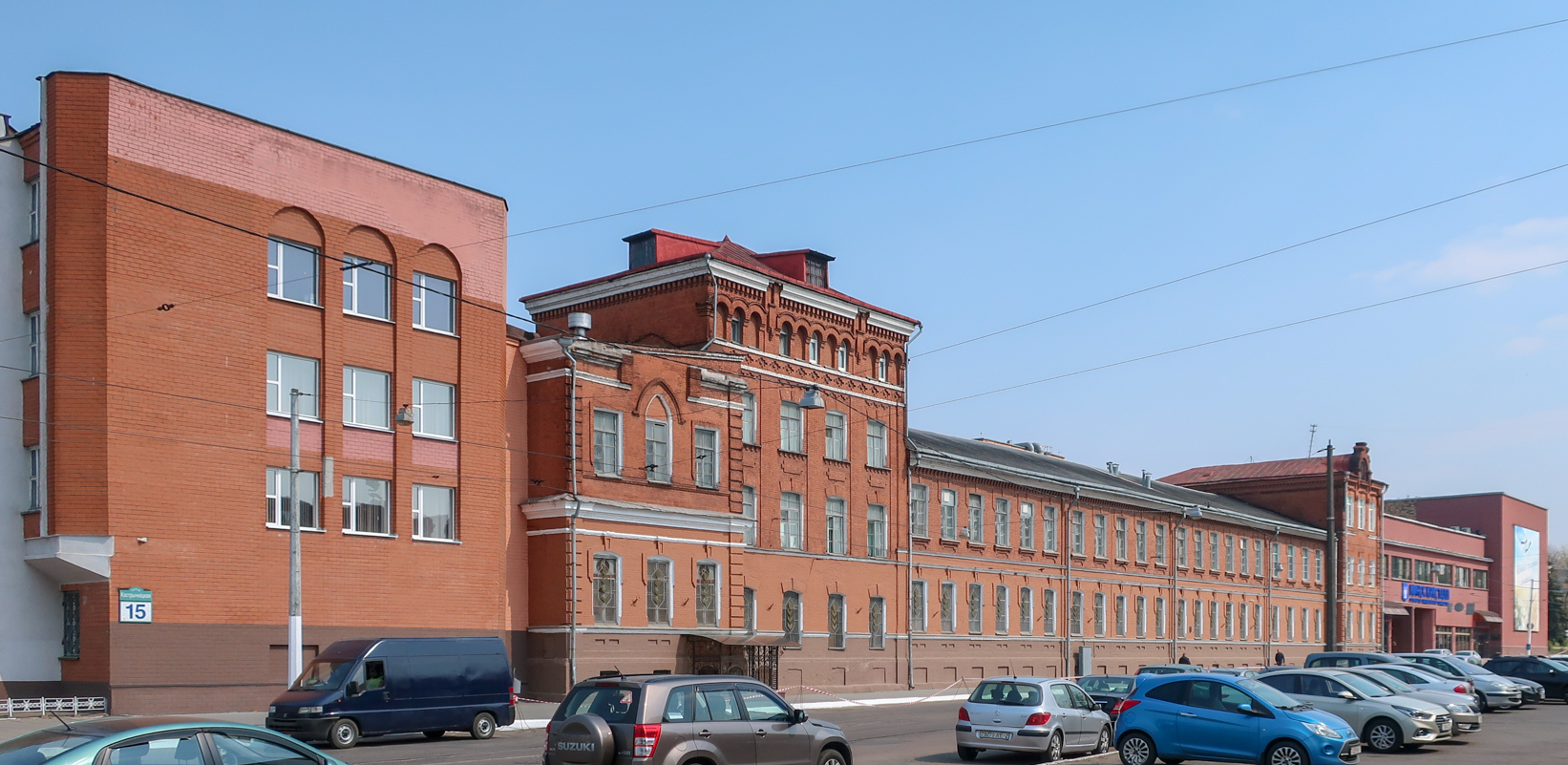 Minsk Kristall liquor plant (Minsk, Belarus)